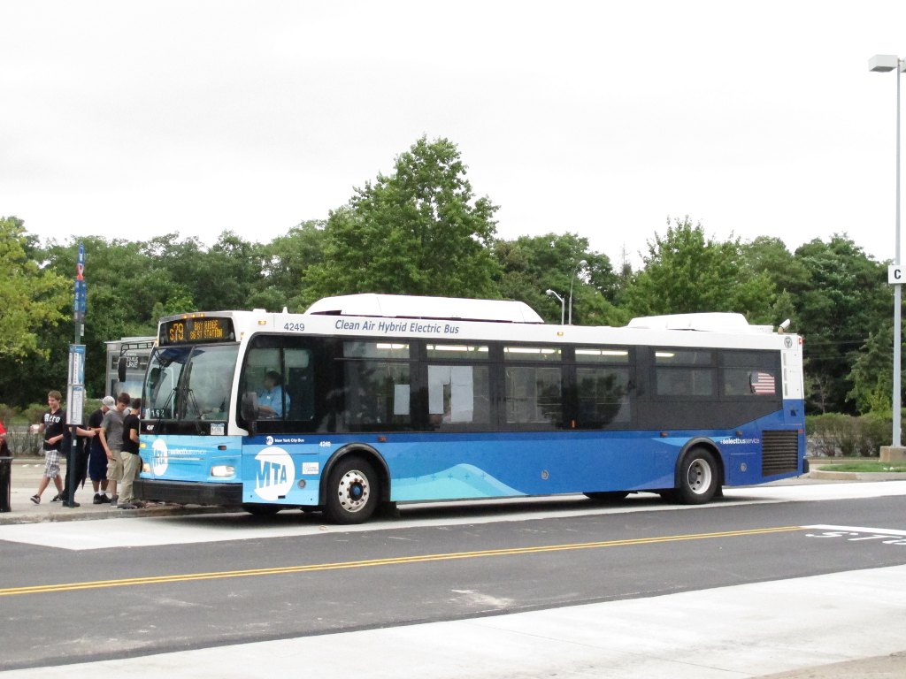 MTA New York City Bus #4249, in Select Bus Service livery, makes its second pickup at the Staten Island Mall on Ring Road.